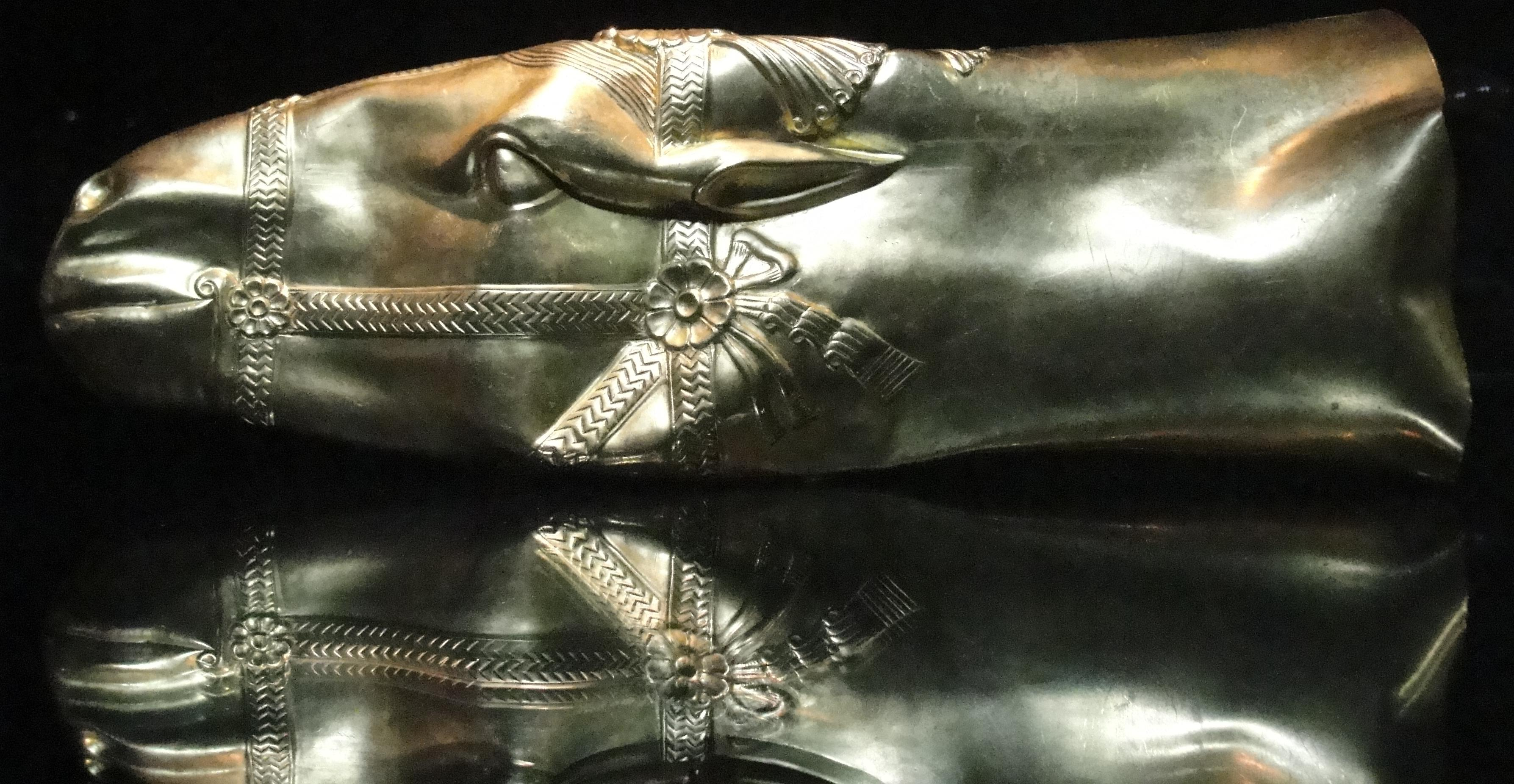 Golden head of a horse rhyton - Sassanid Empire 6-7 century AD